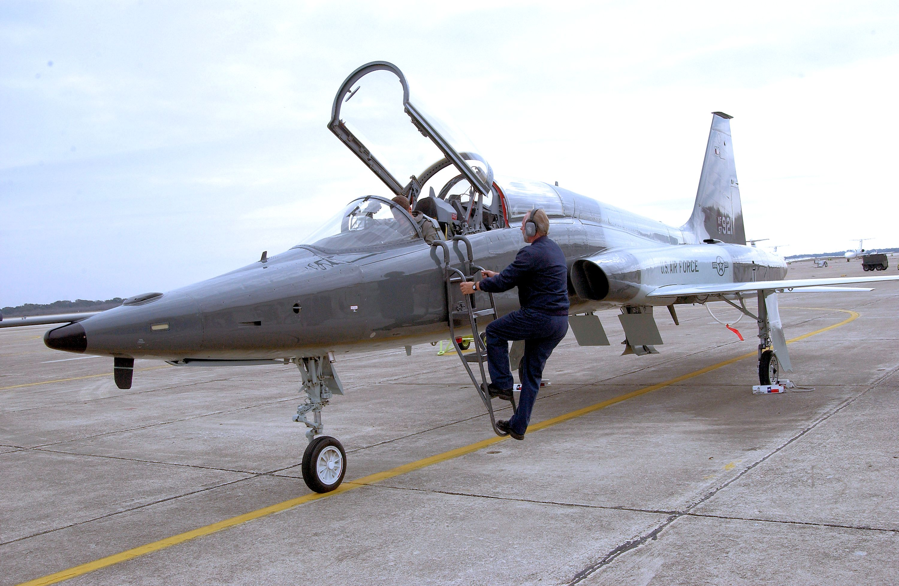 A T-38C Talon used primarily by Air Education and Training Command for undergraduate pilot and pilot instructor training. (U.S. Air Force photo/Steve White)